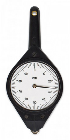 Mechanical opisometer (curvimeter) KU-A